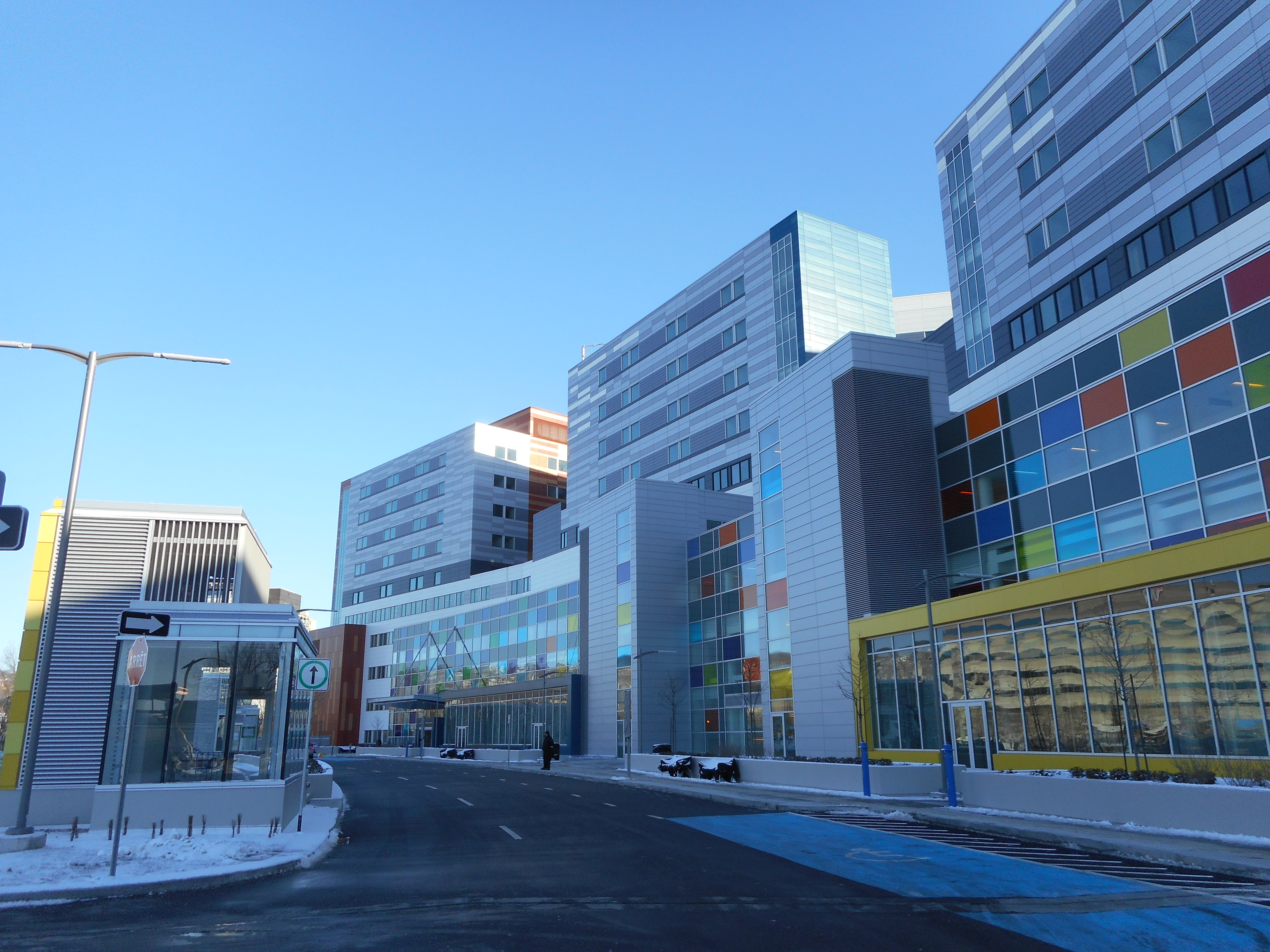 McGill University Health Centre, MUHC's Glen site